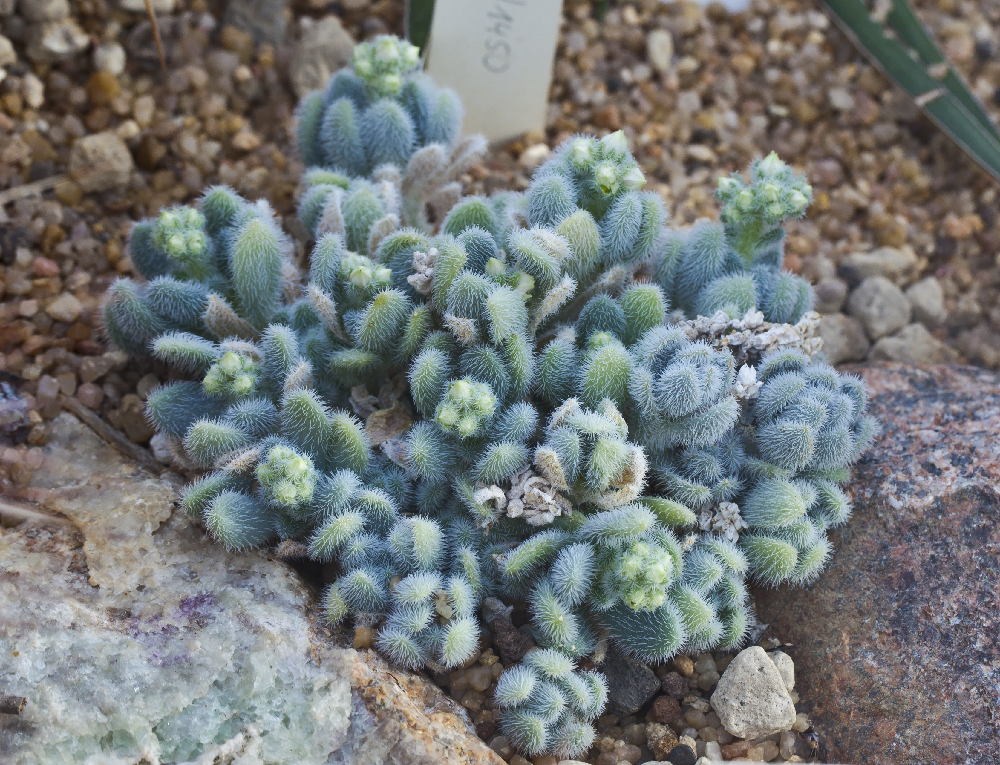 Sedum hintonii, Munich Botanic Garden, Germany